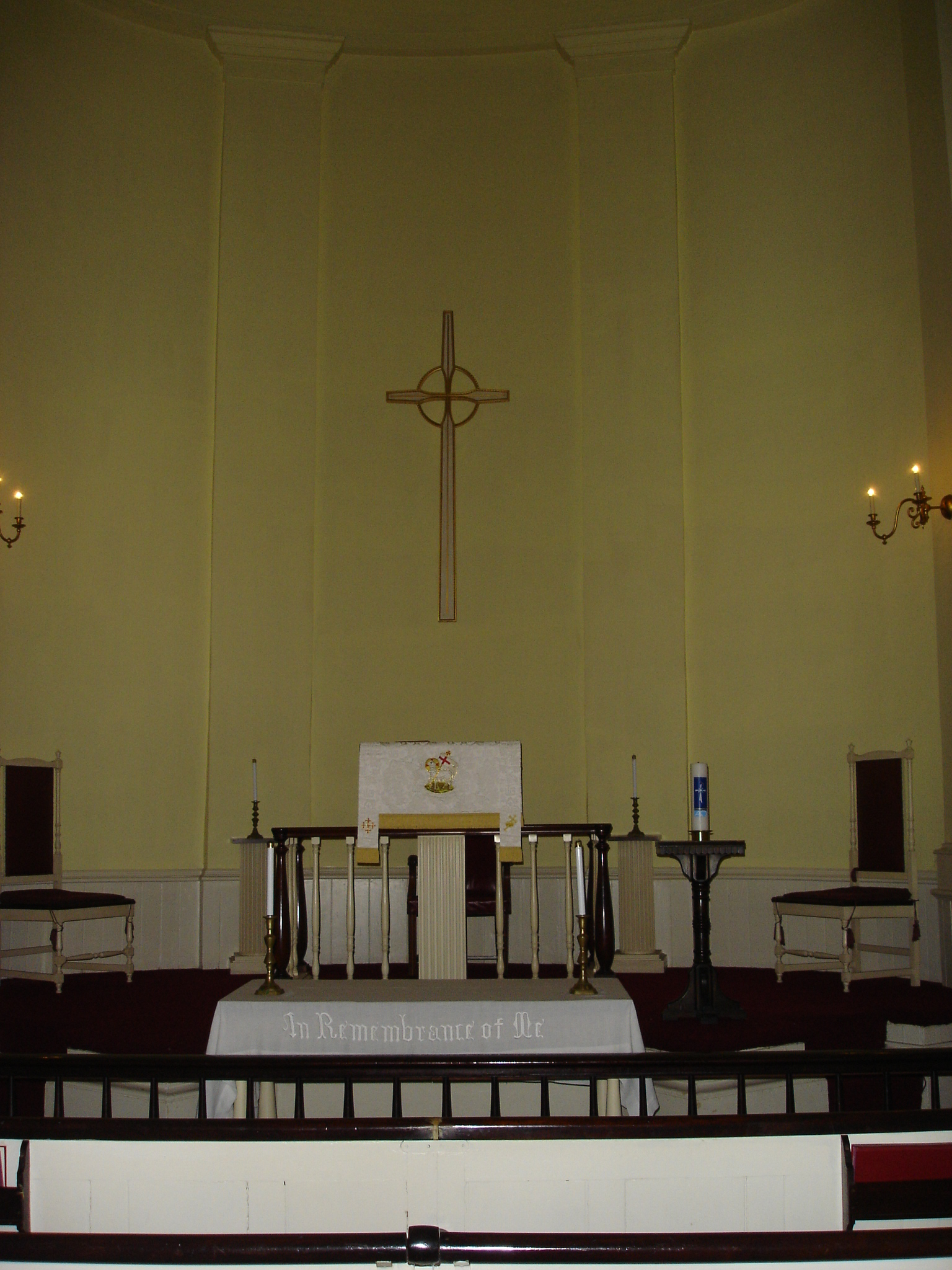 This photo is of Wikipedia Takes Manhattan location code 151, John Street Methodist Church.